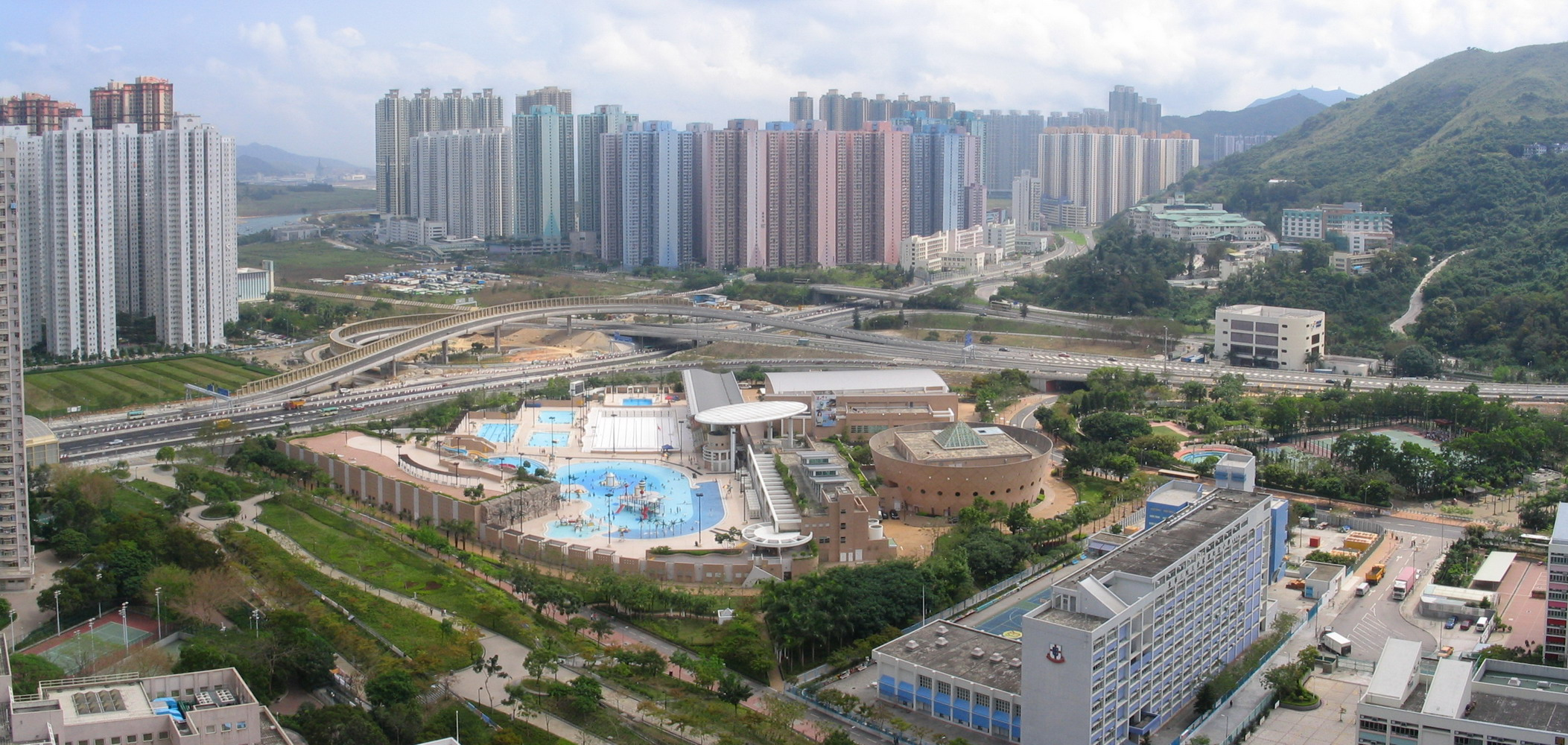 Tseung Kwan O New Town (Panorama)